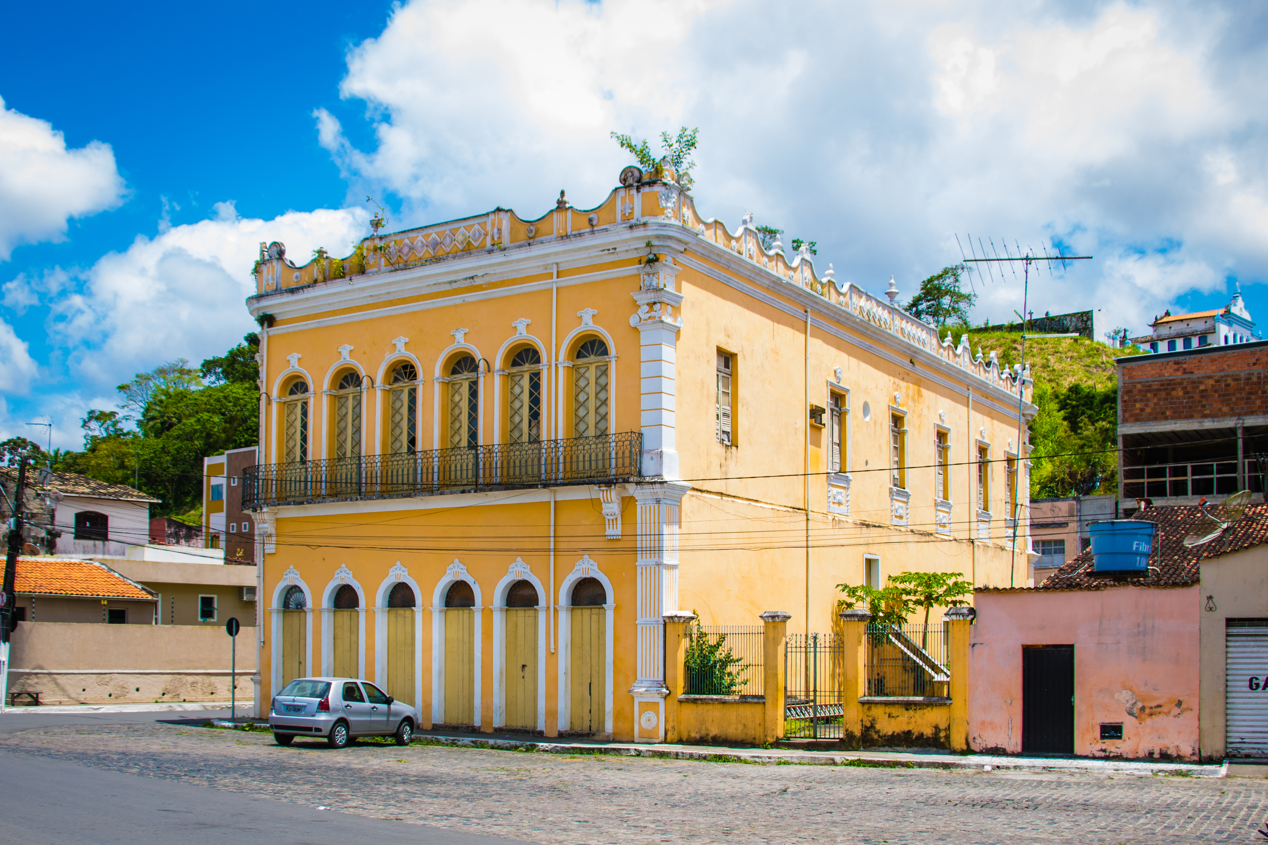 Sobrado à Travessa da Conceição, 1, also known as Antigo Fórum Edgard Matta. Nazaré, Bahia, Brazil.